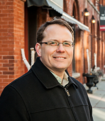 Mike Schreiner, Leader of the Green Party of Ontario, in Guelph Ontario.